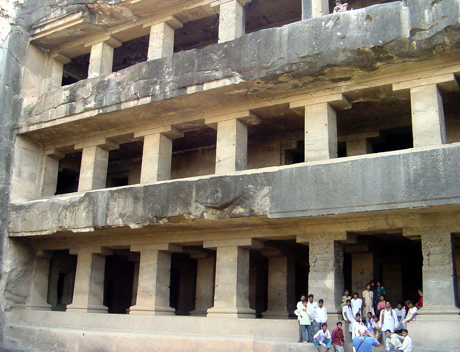 Exterior. Cave 12, Ellora Cave 12, like Cave 11, is a three-story vihara with a multi-columned facade. However, since Cave 12 lacks the ground-floor screening walls of Cave 11, the view from outside leads straight into its interior.